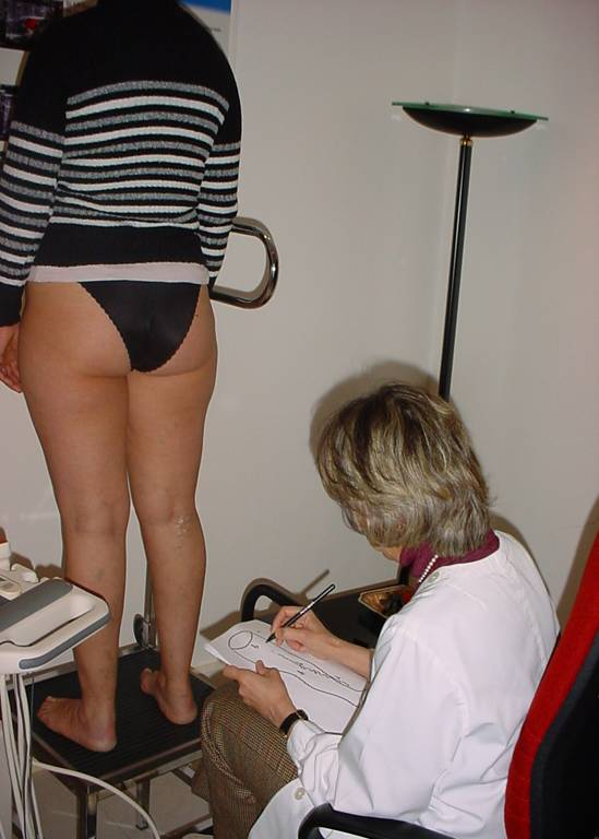 Doing a venous map after echodoppler examination